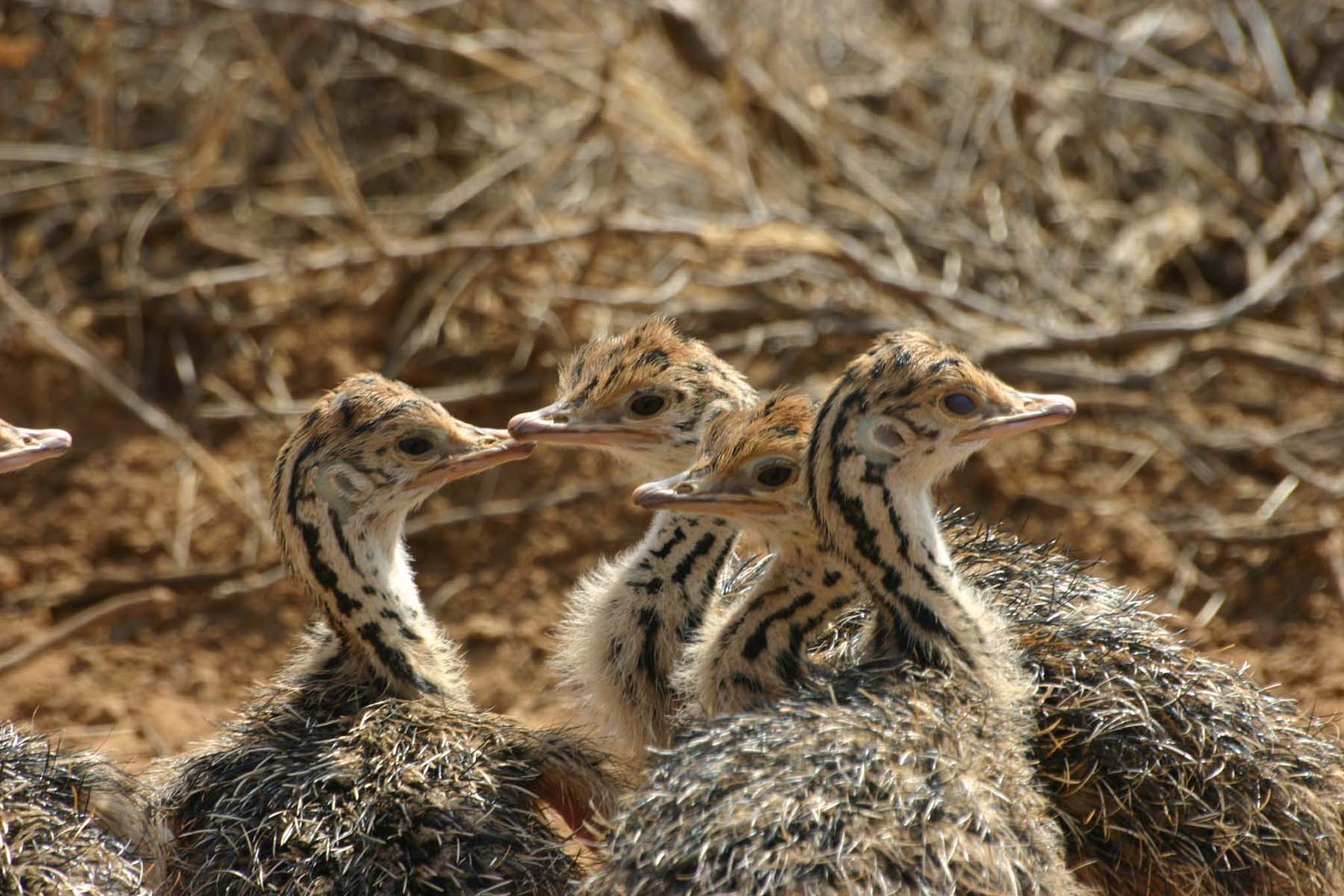 A group of young Somali Ostriches in Samburu Reserve, Kenya